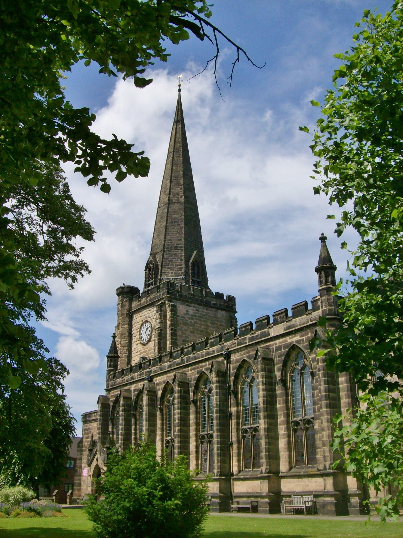 St Mary the Virgin parish church, Uttoxeter, Staffordshire, seen from the southeast